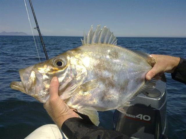 Cape dory (Zeus capensis) False Bay, Cape Town, South Africa